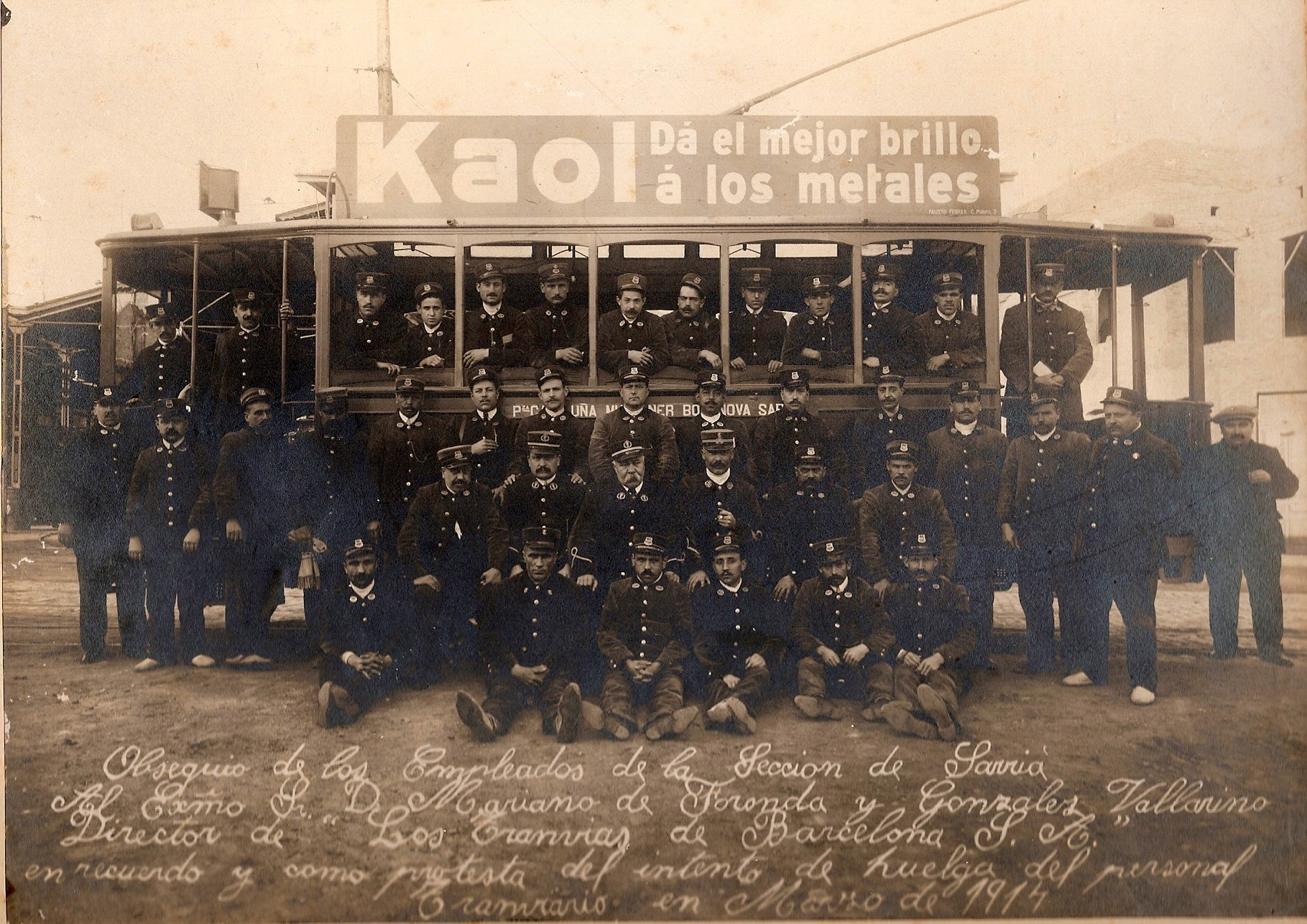 Picture of the tramway workers of Sarria, Barcelona after the attempt of strike of March 1914. It mocks the then director of Barcelona Tramways. The writing translates as follows: "Present of the workers of the Sarria section to most Excellent Mr Mariano de Foronda y González Vallarino, Director of Tramways of Barcelona, as a souvenir and protest of the strike attempt of the tramway workers on March 1914".